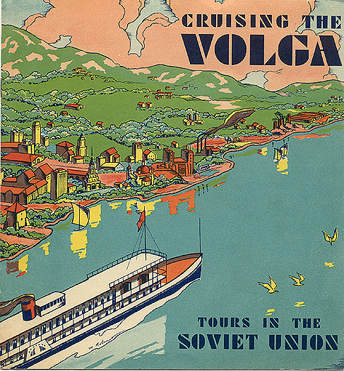 Travel brochure "Cruising the Volga," circa 1931. Published by State Tourist Company of USSR "INTOURIST".